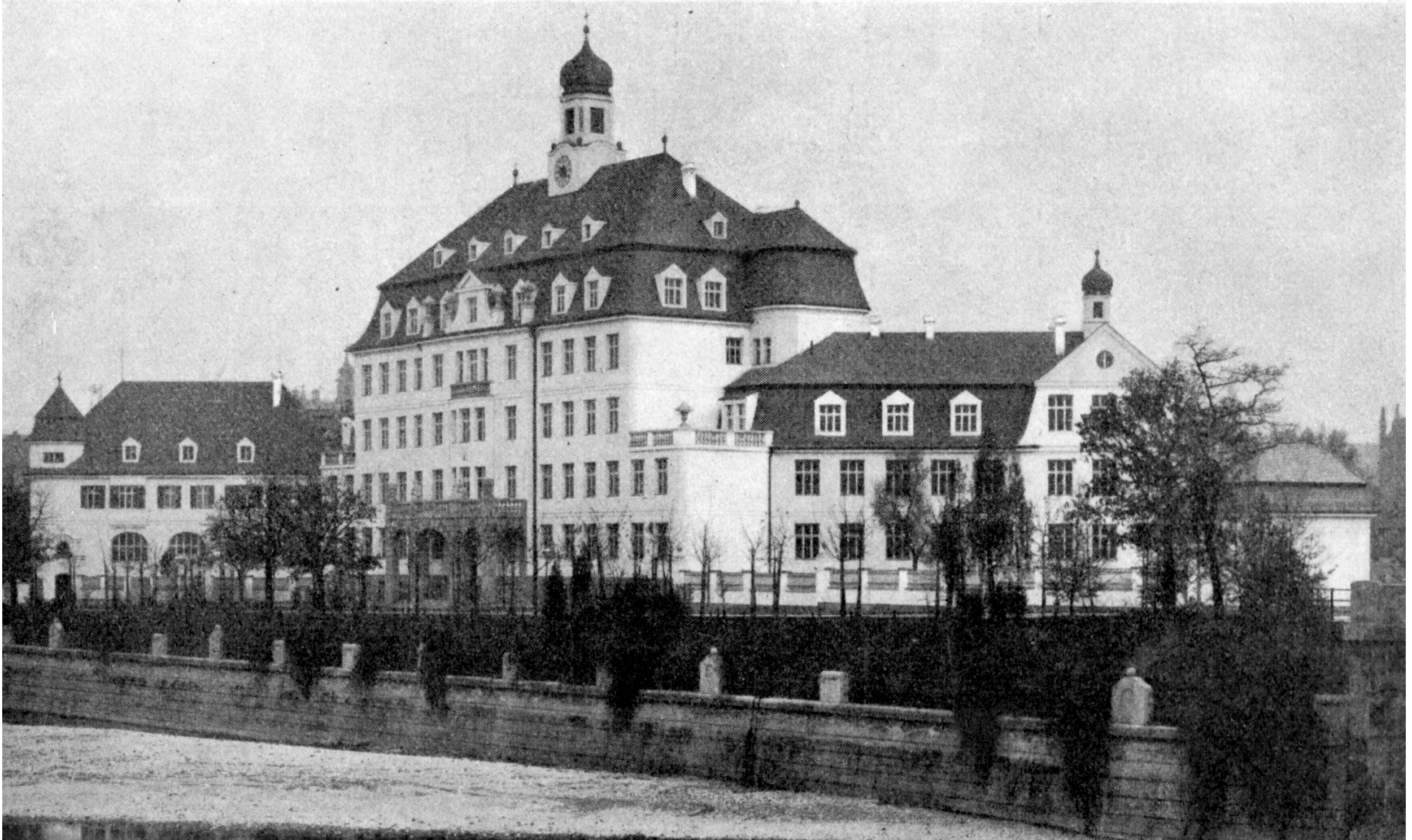 Lehrerinnen-Bildungsanstalt München